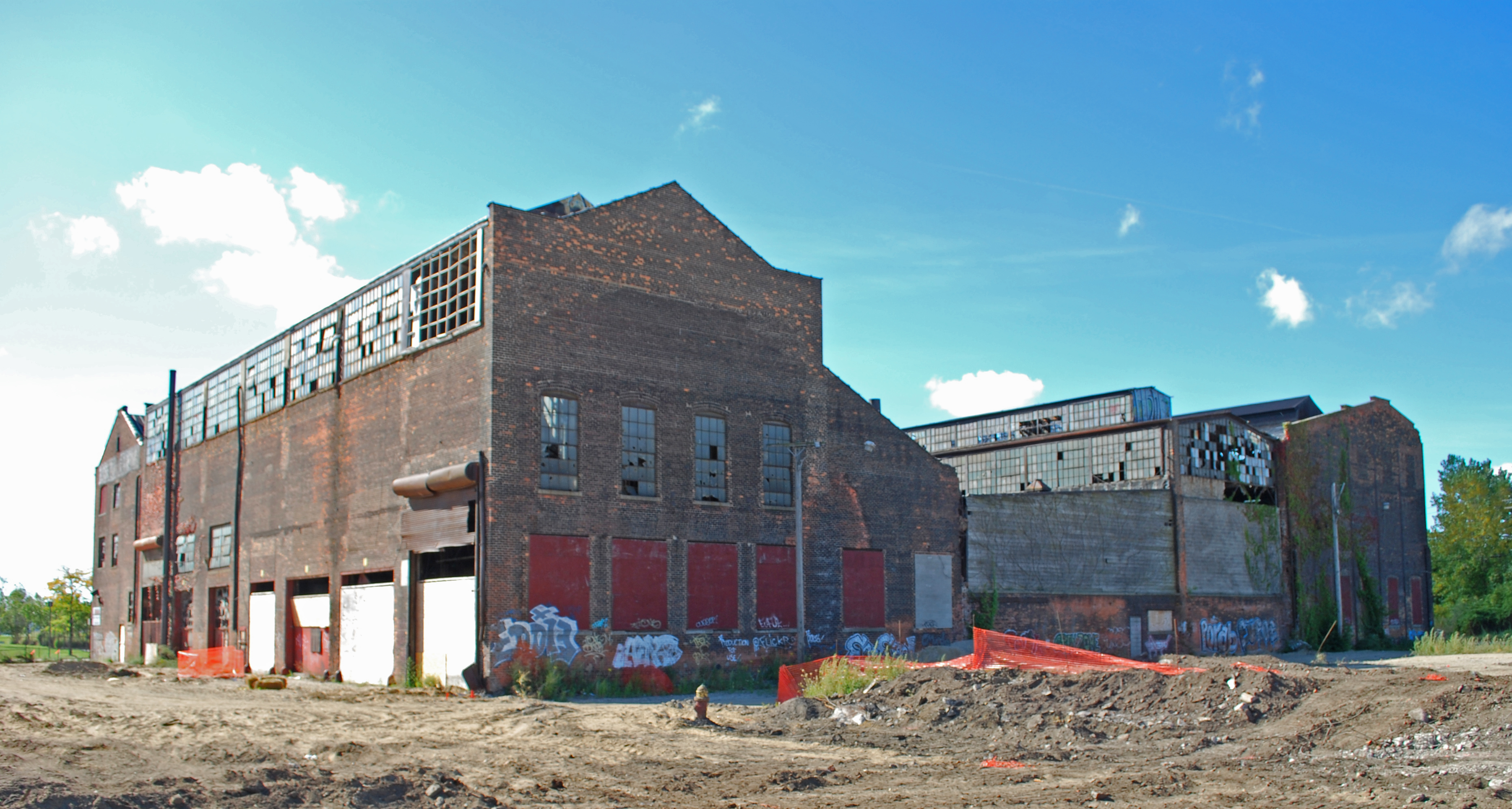 Dry Dock Engine Works from north 2009